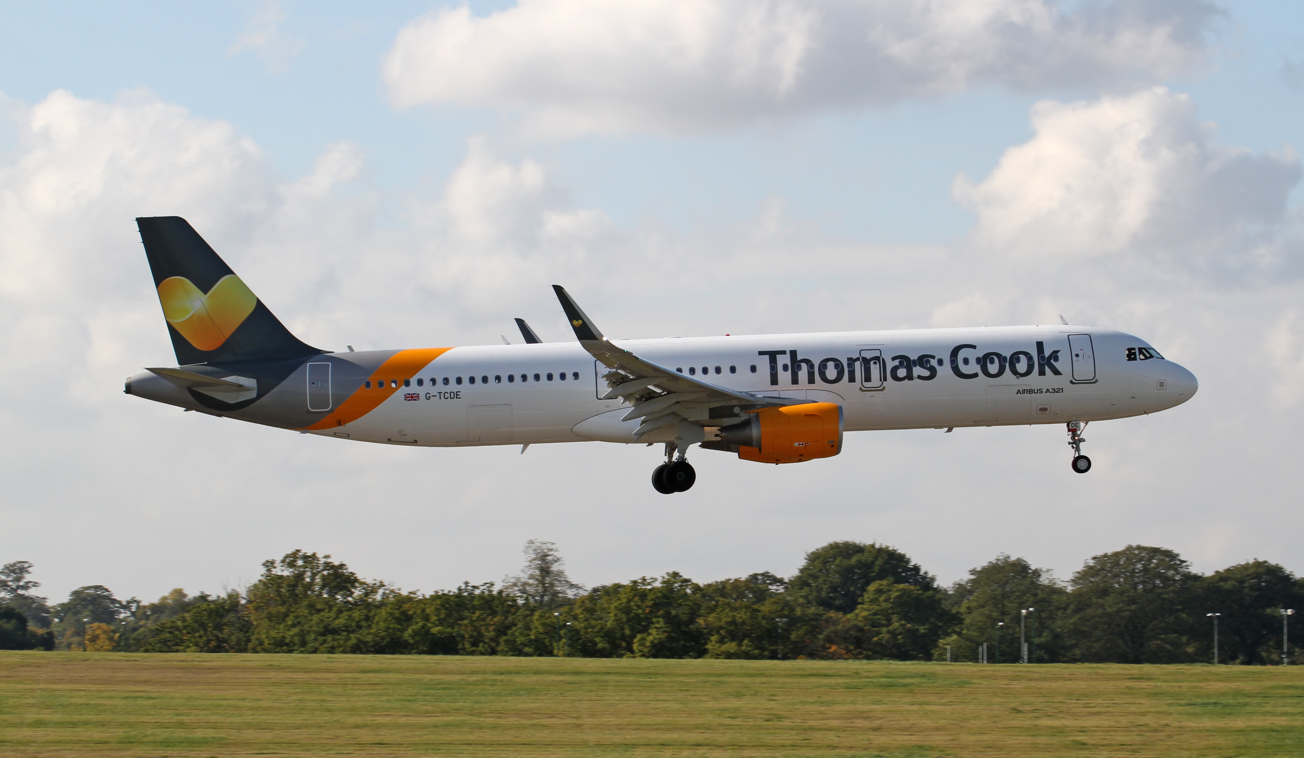 G-TCDE Thomas Cook Airlines Airbus A321-200